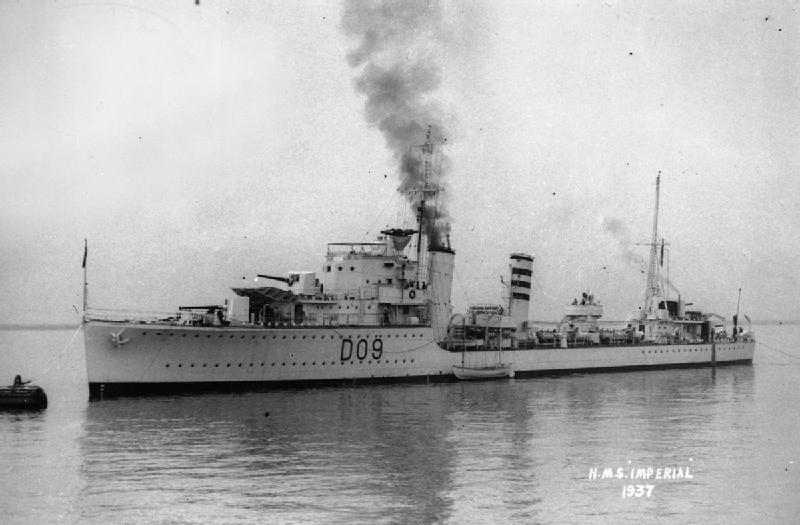 Photograph of British I class destroyer HMS Imperial